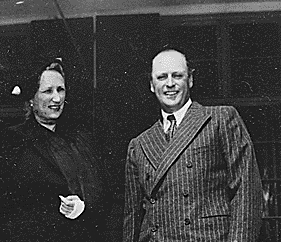 Crown Prince Olav (later King Olav V) and Crown Princess Märtha of Norway